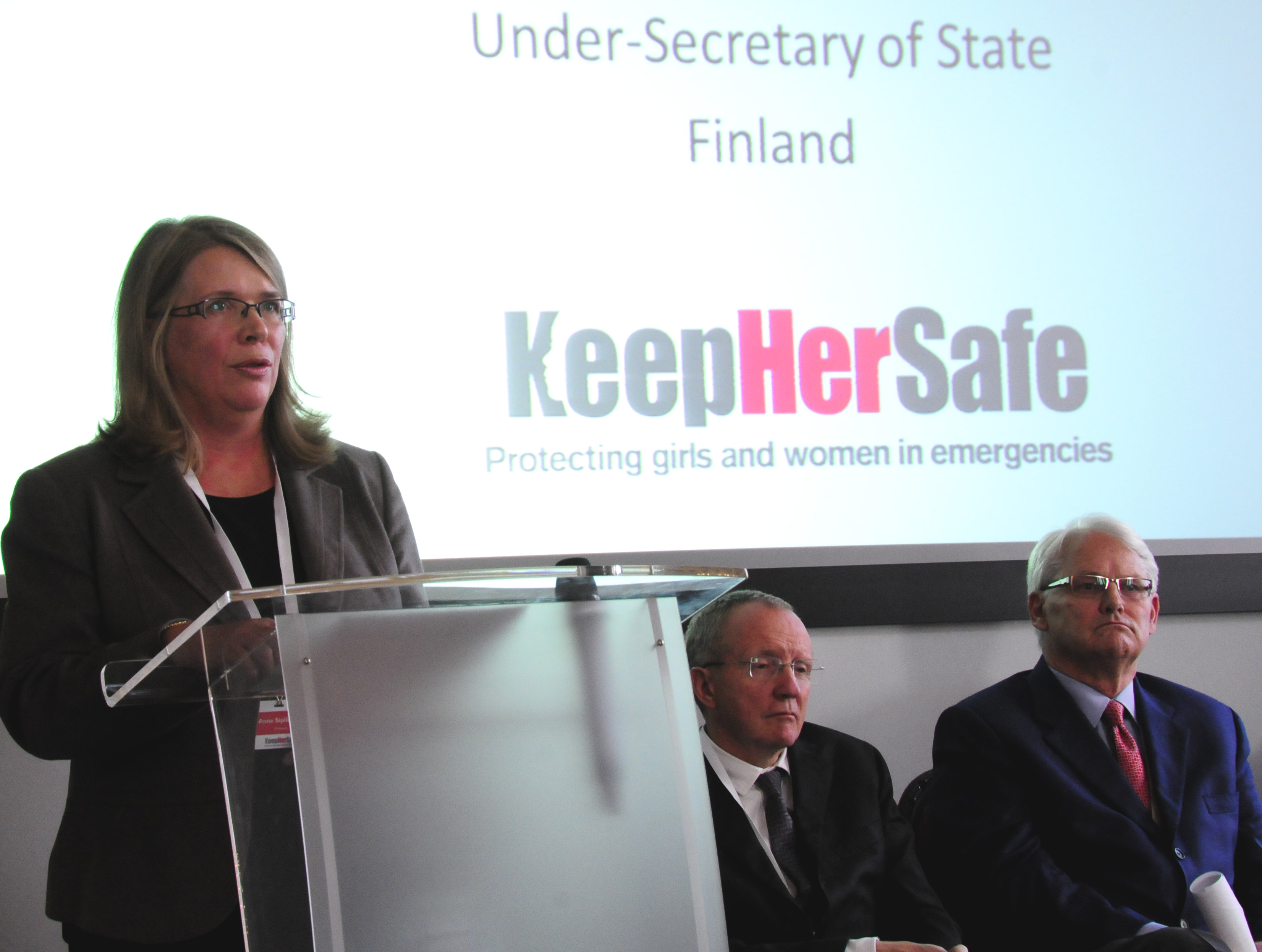 Leading humanitarian agencies met in the UK today to endorse a global commitment that will prioritise the protection of girls and women from violence and sexual exploitation in emergency situations. International Development Secretary Justine Greening and Sweden’s International Development Minister Hillevi Engström co-chaired a high-level event in London for governments, UN heads, international NGOs and civil society organisations to agree a fundamental new approach to protecting girls and women in emergency situations, both man-made and natural disasters. Read the news story